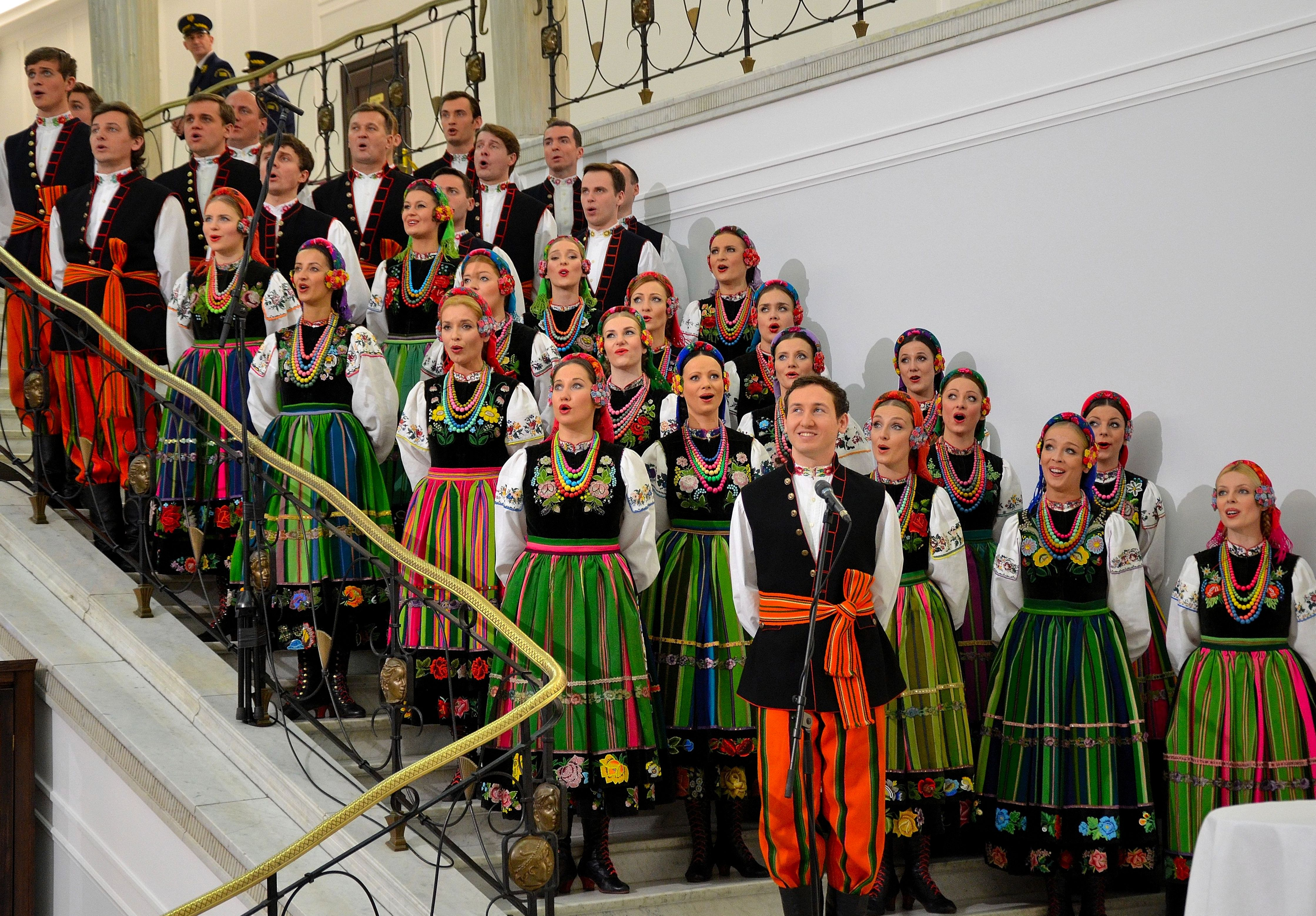 State Folk Group of Song and Dance 'Mazowsze' during Christmas meeting in the Sejm